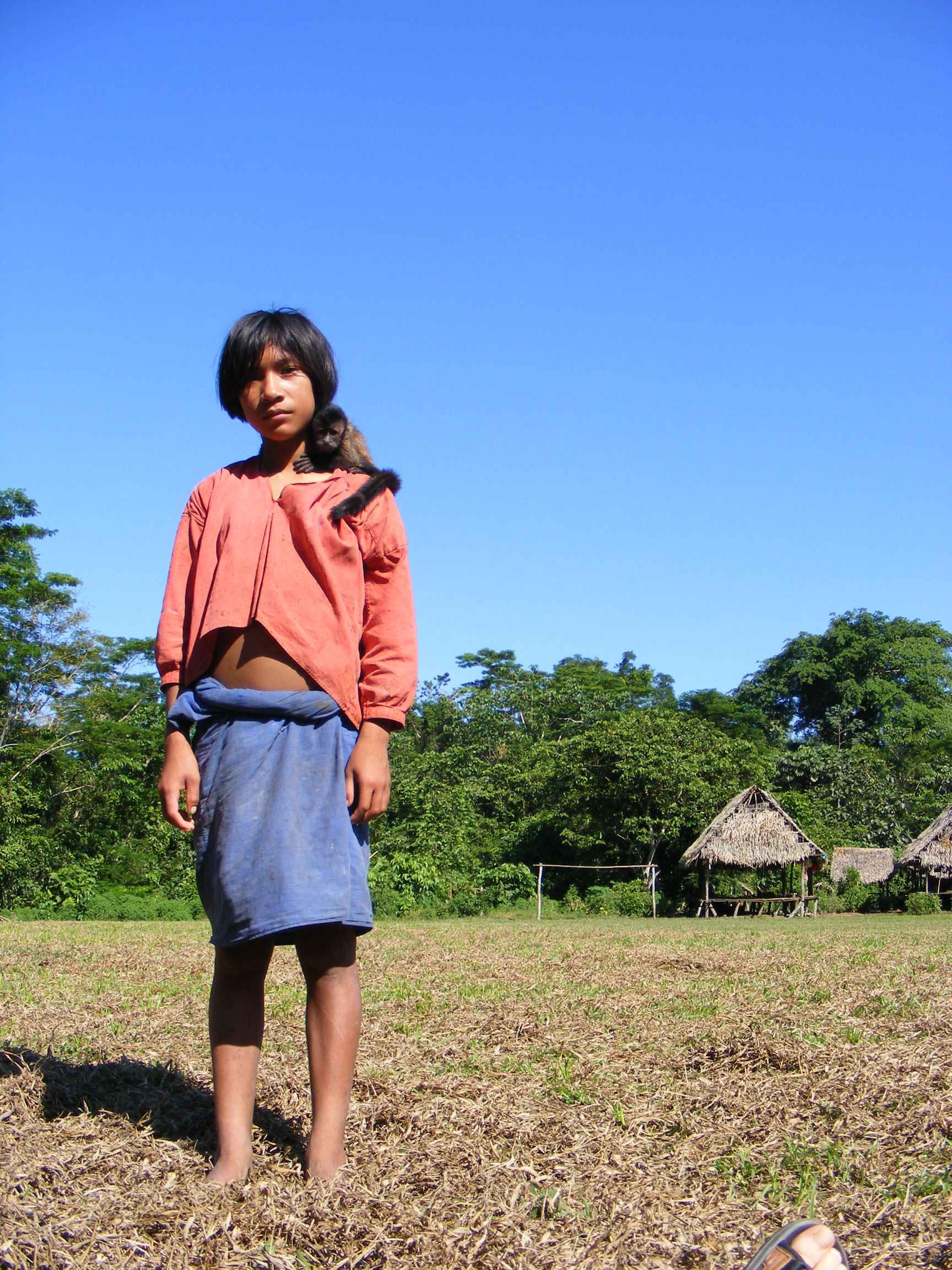 This is the Ururinia girl.